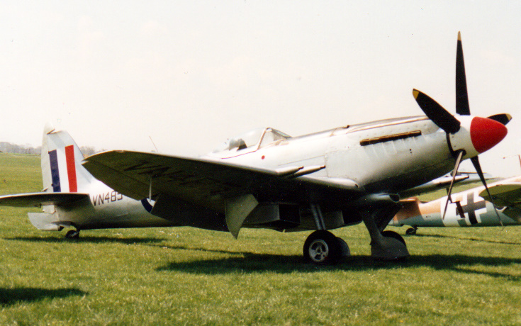 Seafire FR.47 Photographed at the Spitfire 60th Anniversary Airshow, Duxford, 1996 Vintage, Veteran and Preserved Aircraft Scanned print. Photo ref; 1996/Spitfire 60th-Duxford/069